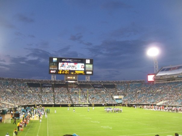 Inside EverBank Field